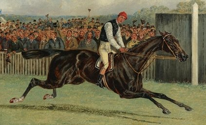 Dutch Oven, winner of the 1882 St. Leger.